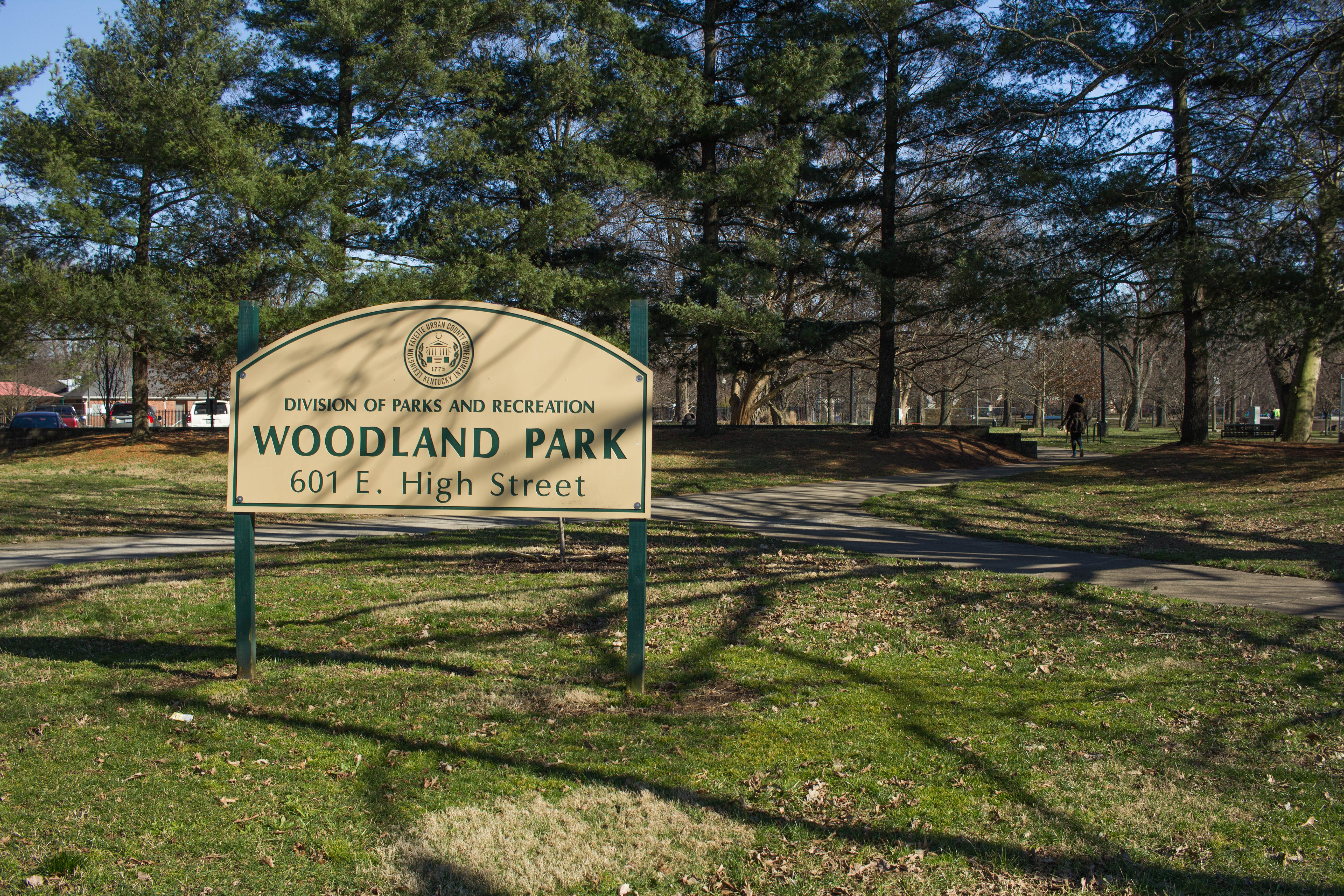 Woodland Park